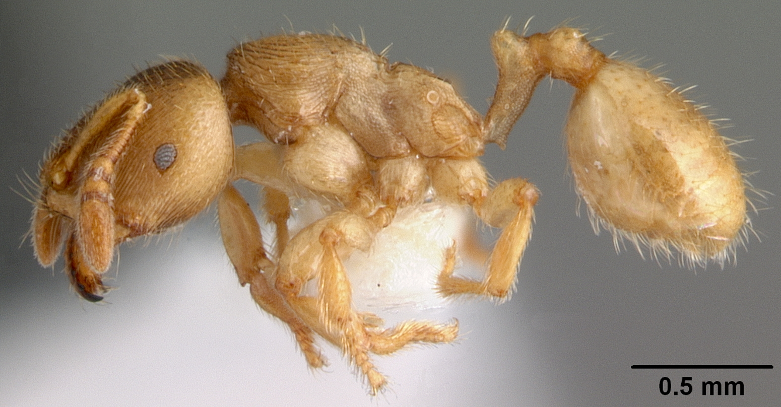 Profile view of ant Adlerzia froggatti specimen casent0010805.